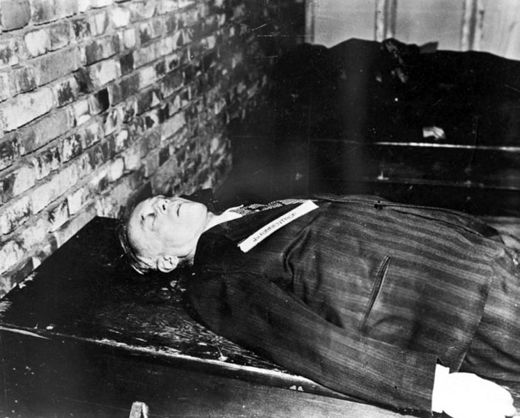 The body of Joachim von Ribbentrop after his execution, Oct. 16, 1946.